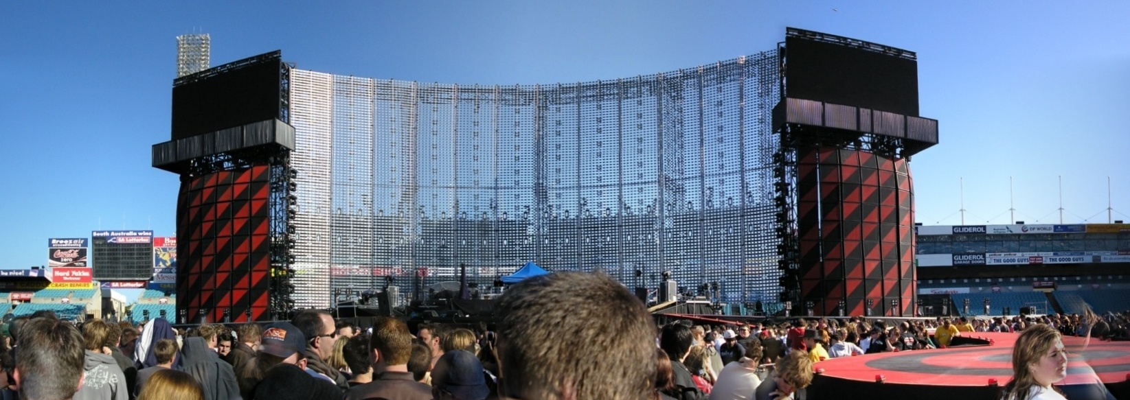 U2's Vertigo Tour stage in Adelaide; Made with Autostitch.